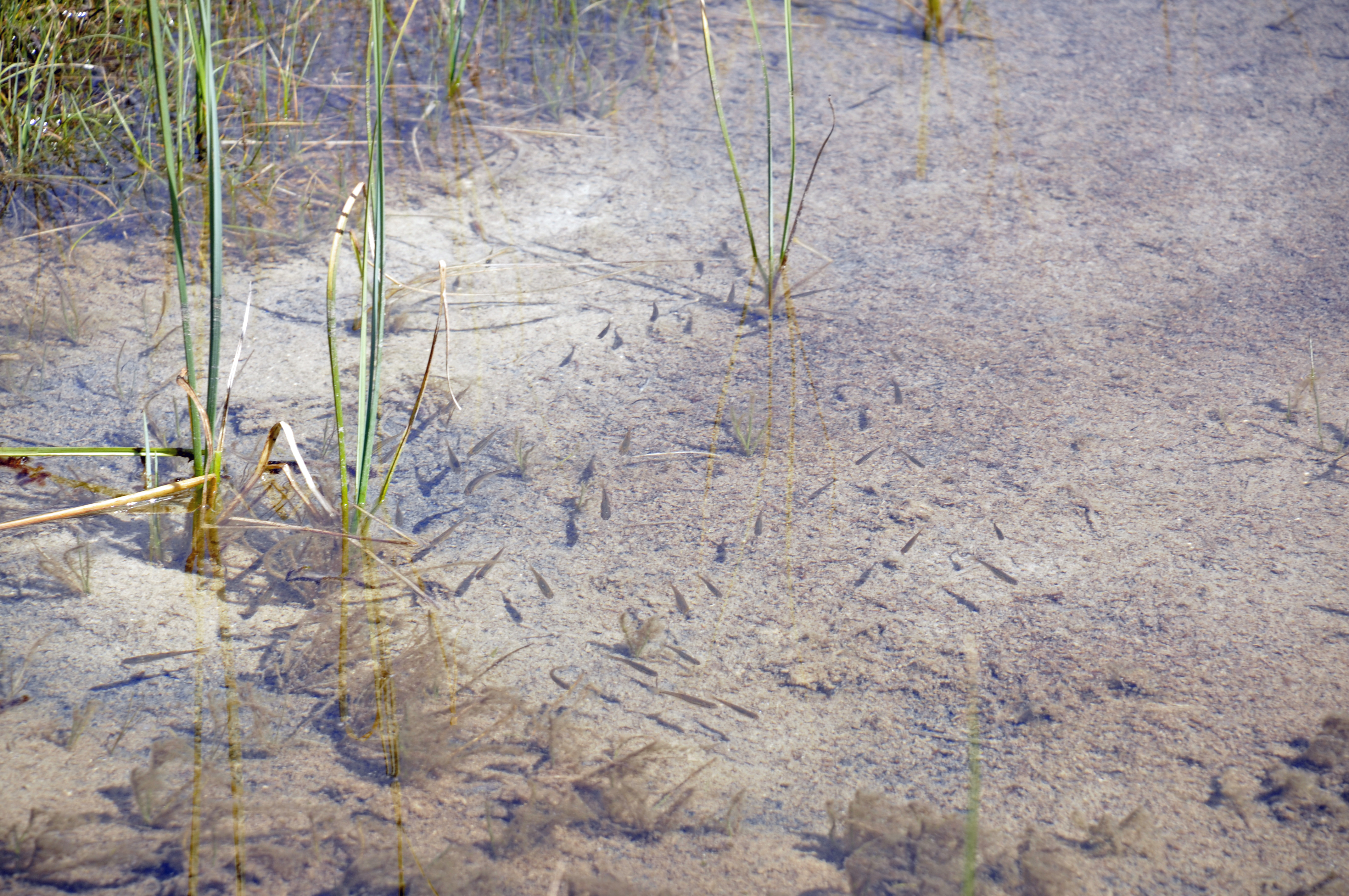 Fishes in the Lech Sant in Gherdëina.